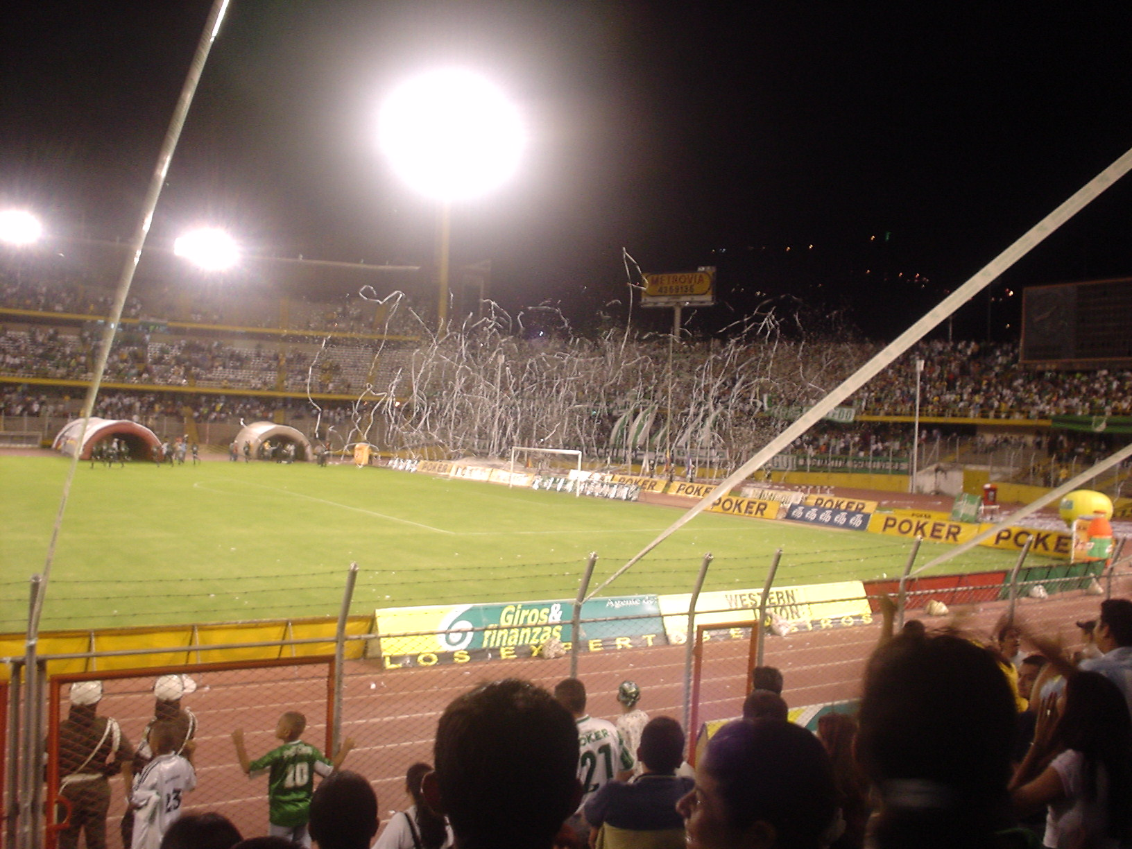 Photo of the North Side of the Pascual Guerrero Stadium, Cali, Colombia